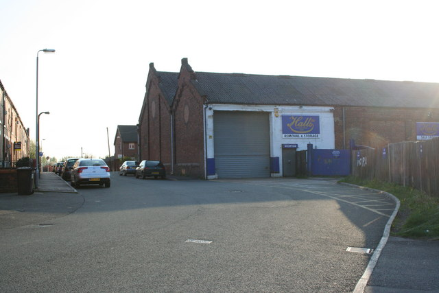 The Old Tram Depot Ex-Wigan tram depot in Tram Street no less !